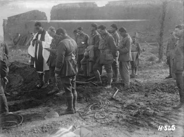 Pioneer Battalion soldiers at the funeral of Lieutenant-Colonel George A King at Ypres, Belgium. Photograph taken 17 October 1917 by Henry Armytage Sanders. Original album caption reads: "Piko nei te Matenga (When our heads are bowed with woe). Maori soldiers singing at the grave side of Lieut-Colonel King, their beloved leader". Pioneer Battalion soldiers at funeral of Lieutenant-Colonel George A King, Ypres. Royal New Zealand Returned and Services' Association :New Zealand official negatives, World War 1914-1918. Ref: 1/2-012982-G. Alexander Turnbull Library, Wellington, New Zealand.